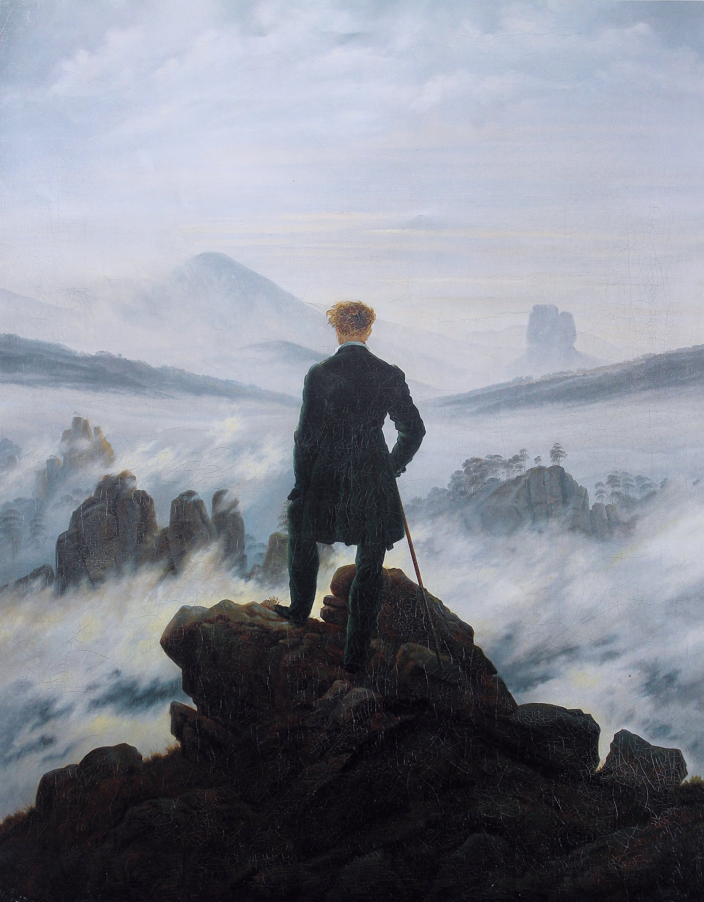 The hiker stands as a back figure in the center of the composition. He looks down on an almost impenetrable sea of ​​fog in the midst of a rocky landscape - a metaphor for life as an ominous journey into the unknown.